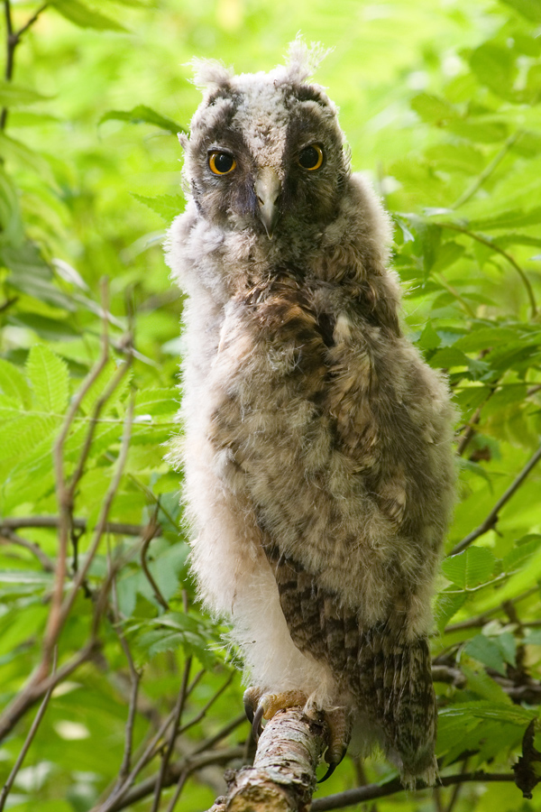 Young long-eared owl (Asio otus). Pictured in Lääne-Viru County, Estonia.